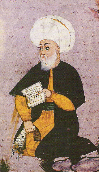 Muhammad Fuzûlî, 16th century poet.